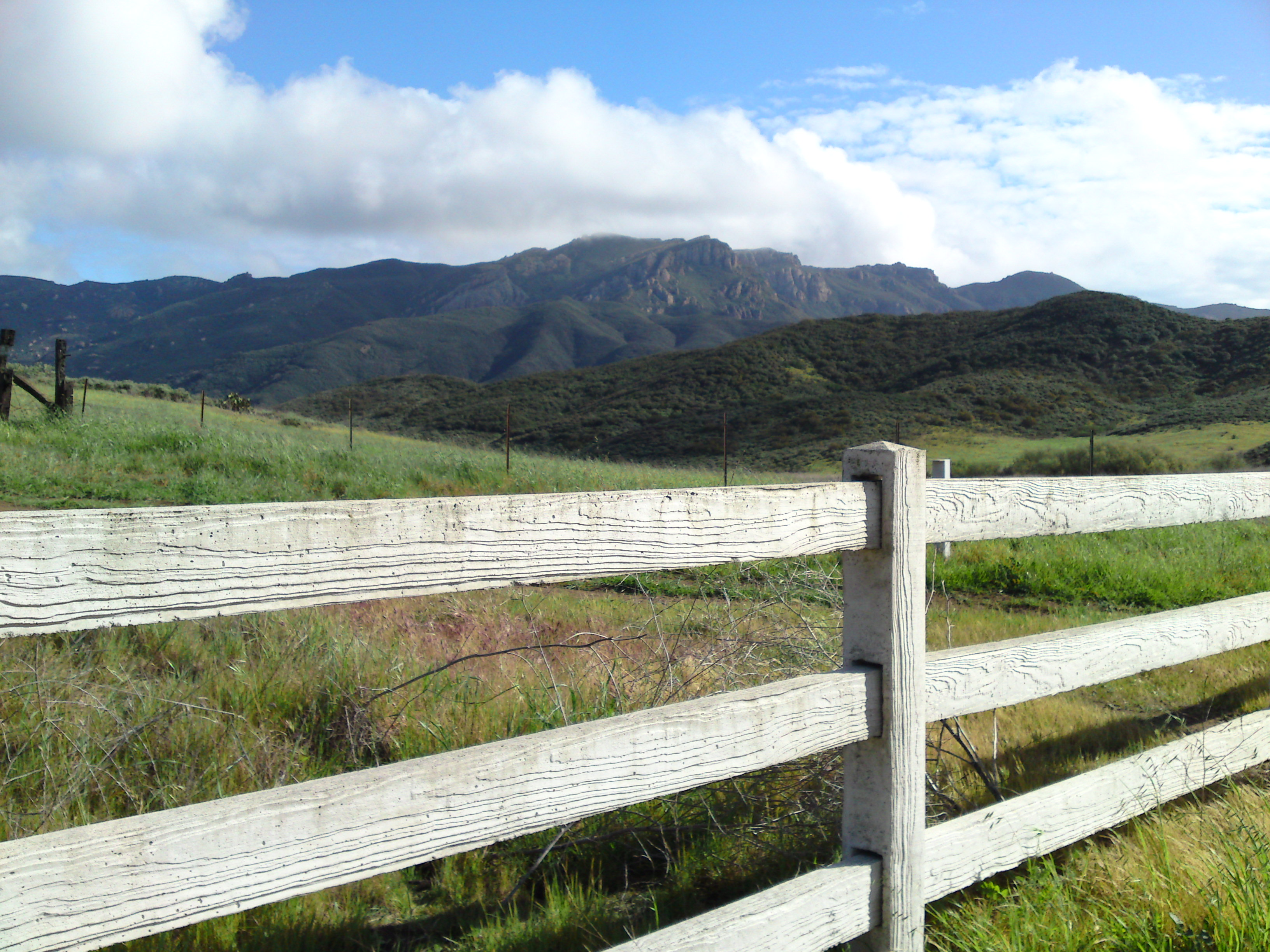 Rancho Guadalasca Park and the Santa Monica Mountains — in Ventura County, California.